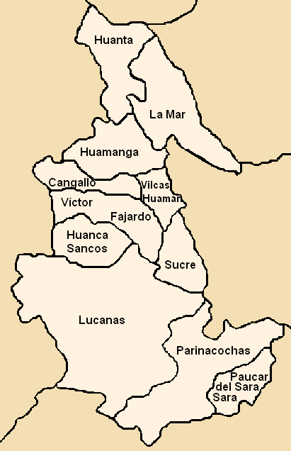 Provinces of the Ayacucho region in Peru (Map)